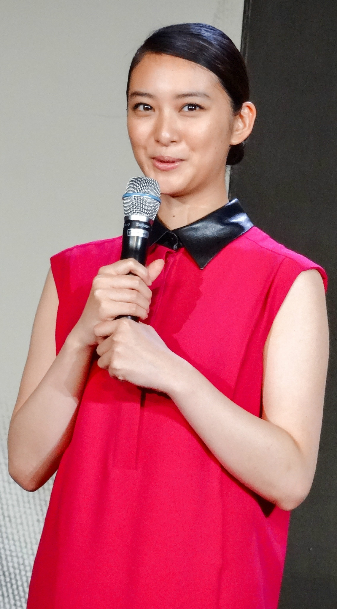 Rurouni Kenshin: Kyoto Inferno / The Legend Ends, Red Carpet Premiere: Takei Emi